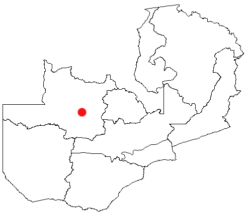 Kasempa, Zambia Location Map; created with the GIMP. Made by User:Acntx.